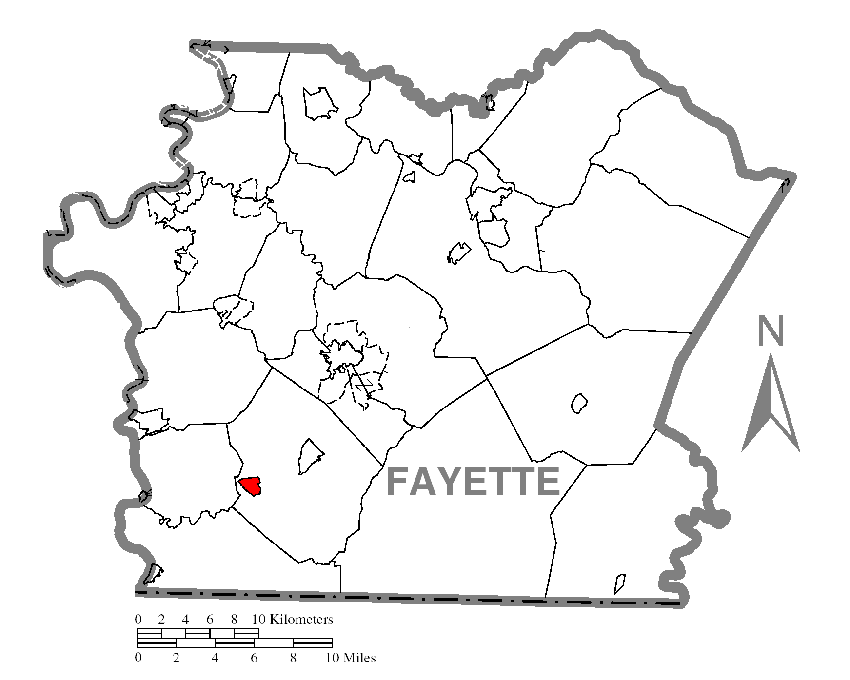 Map of Fayette County higlighting Smithfield.